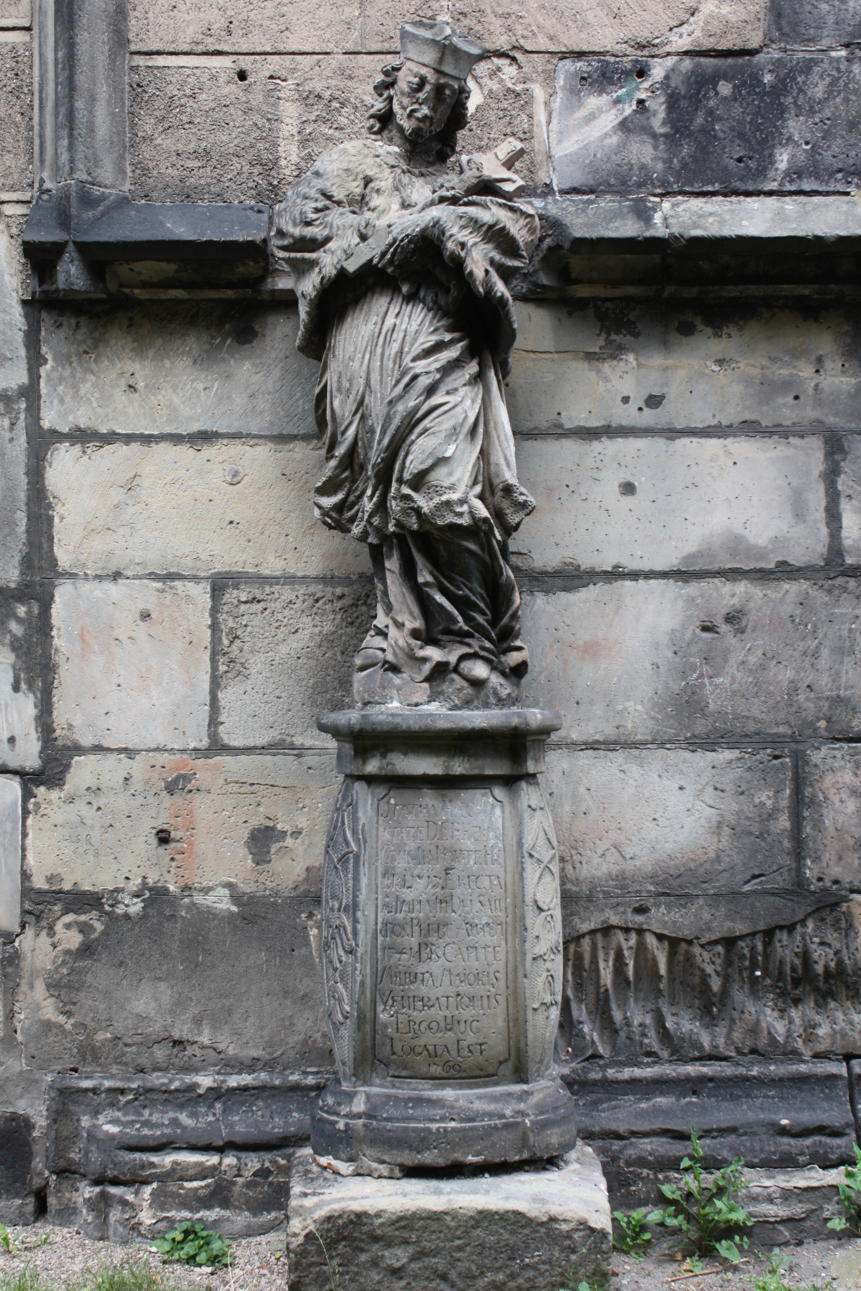 This photo of Lower Silesian Voivodeship was taken during Wikiexpedition 2013 set up by Wikimedia Polska Association. You can see all photographs in category Wikiekspedycja 2013. English | Polski | +/−